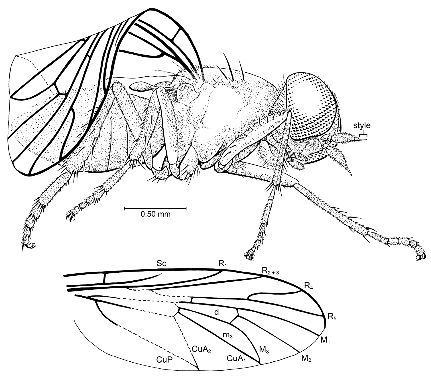 Kumaromyia burmitica Grimaldi & Hauser, (Therevoid family group: ?Apsilocephalidae), in Burmese amber. Right lateral habitus of holotype AMNH Bu131, as preserved. Below: wing, partially reconstructed.